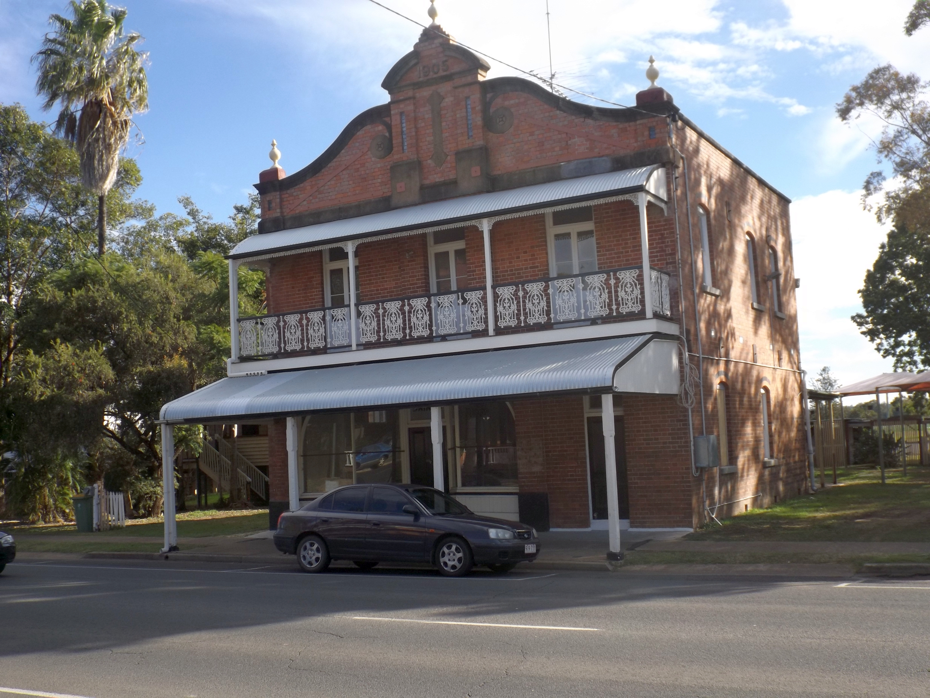 Photo of Whitehouse's Bakery at Laidley, Lockyer Creek Region, Queensland, Australia.